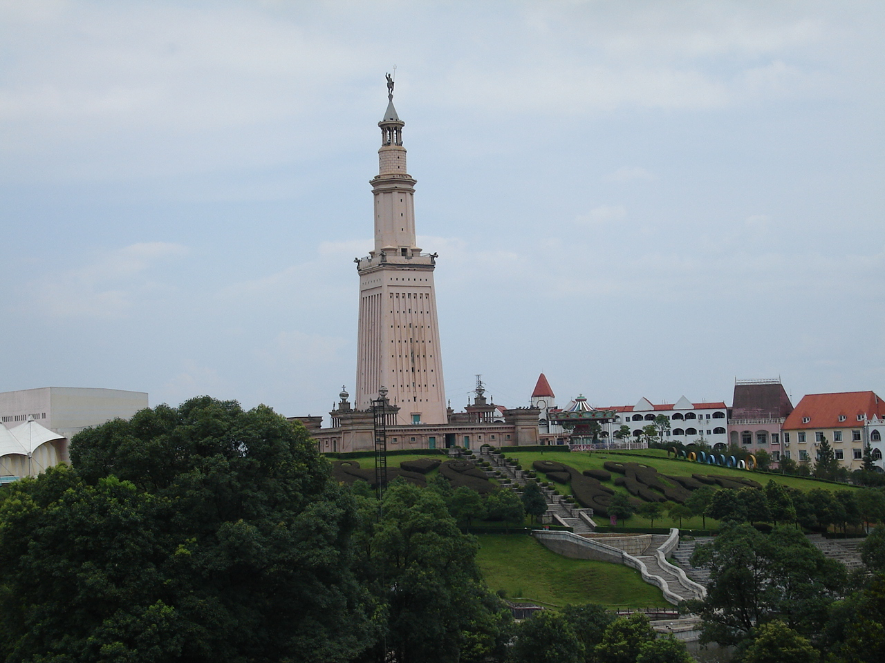 Lighthouse of Alexandria in "The Window of the World" cultural park in Changsha, China.